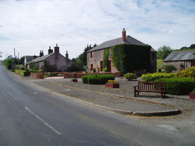 Waterbeck. A pleasant small village with many fine buildings.